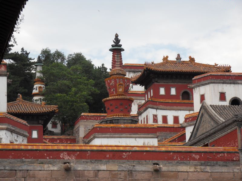 Puninsi Templeare eight outer temples source:owne.